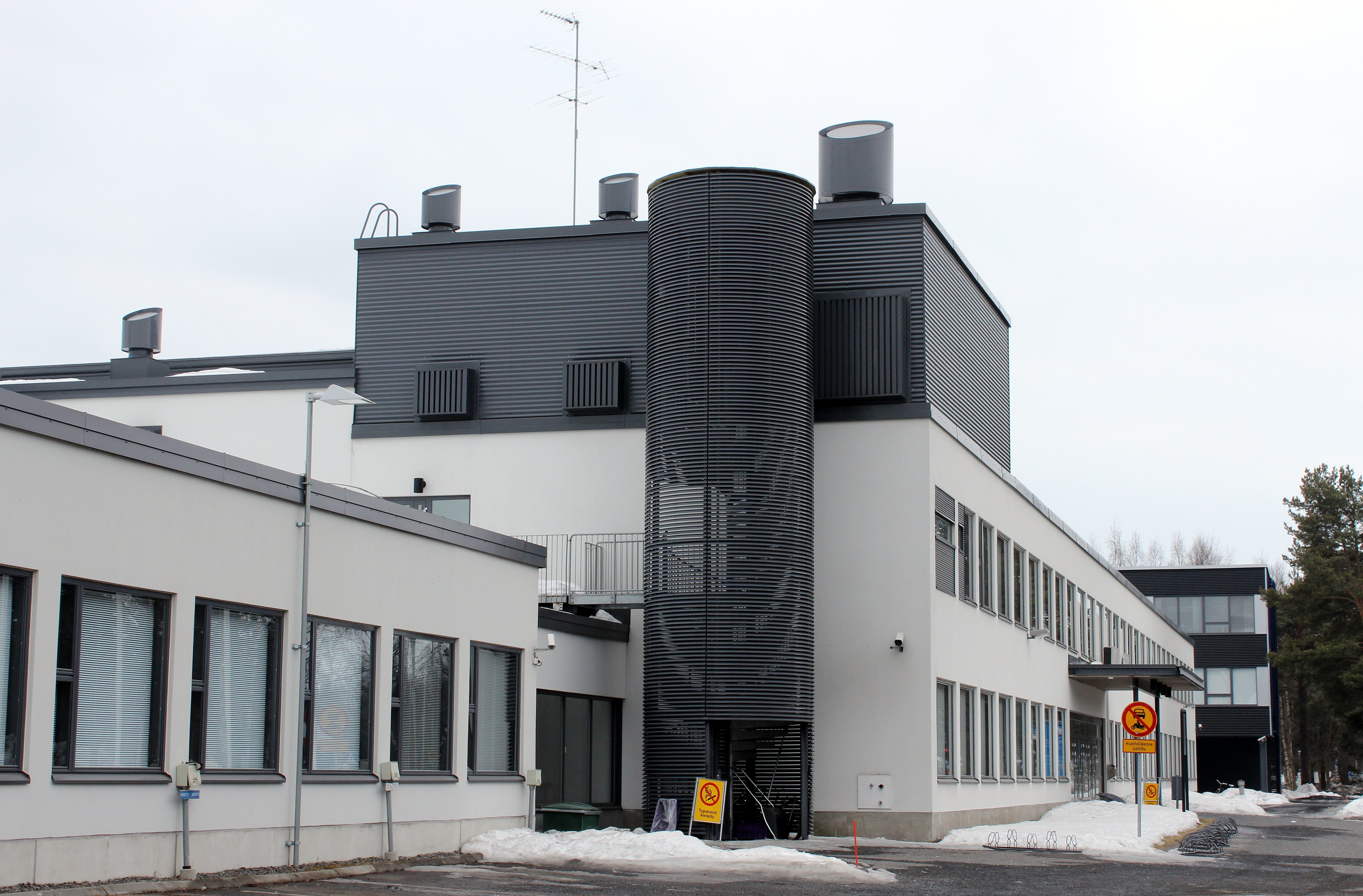 Oulu Vocational College in Kaukovainio neighbourhood.